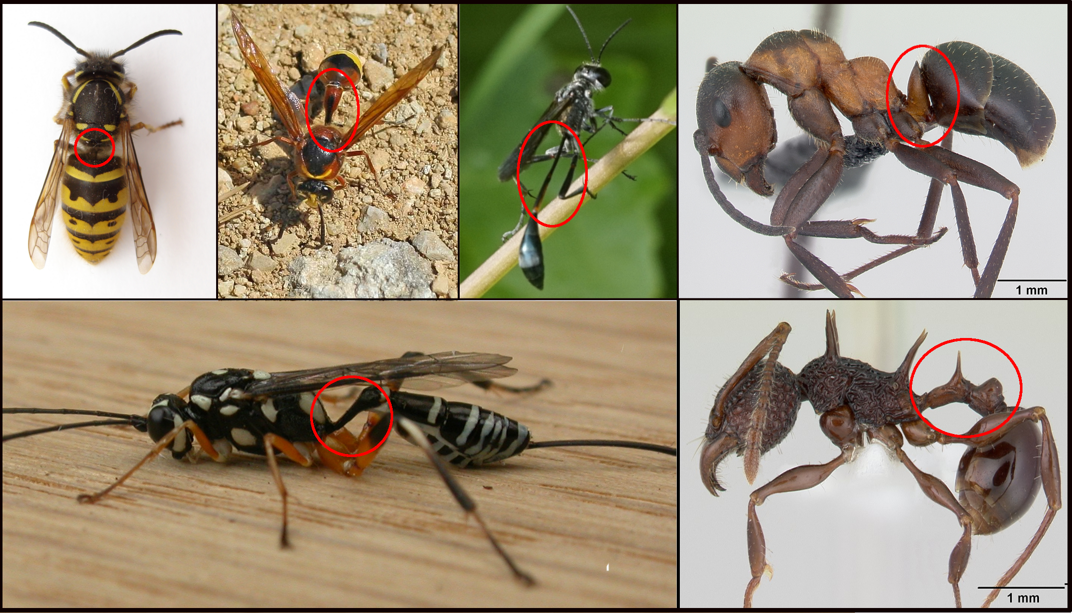 Petiole (hymenoptera) : from left to right and from top to bottom : Vespula vulgaris, Delta unguiculatum, Ammophila, Formica lugubris, Ichneumon promissorius, Acanthomyrmex ferox